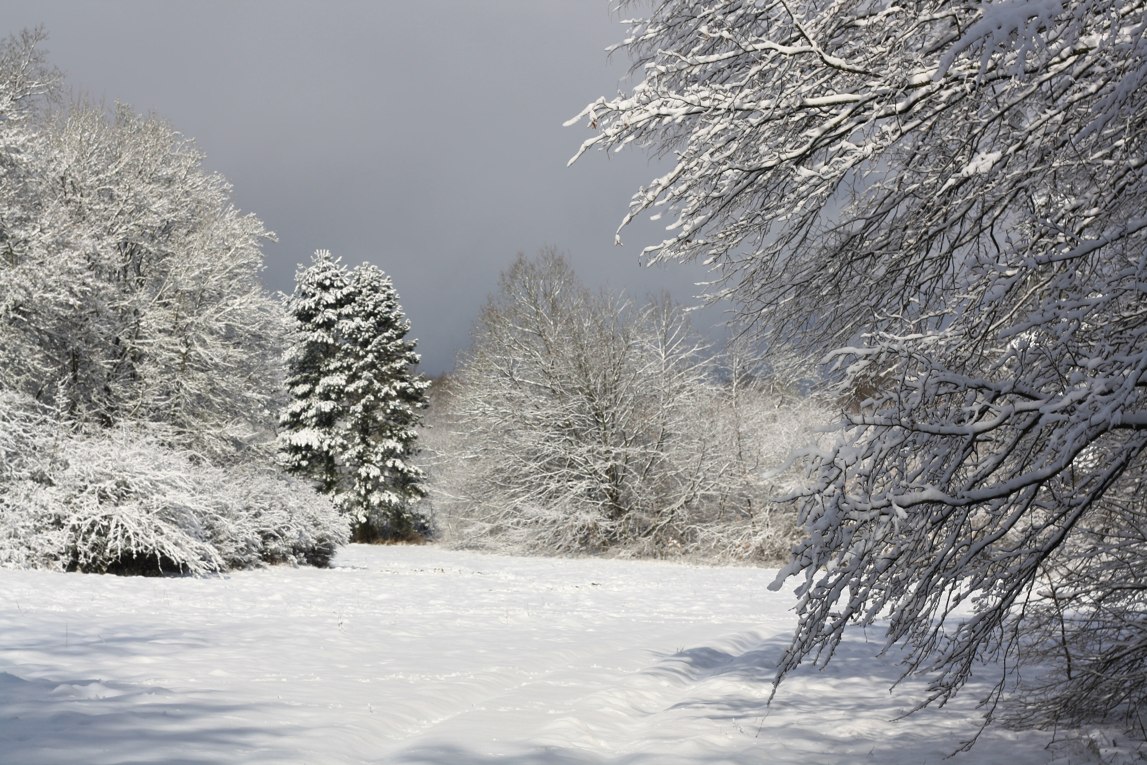 Foret de Haye à Chaligny